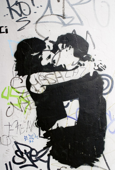 Sprayed stencil and tags in Berlin